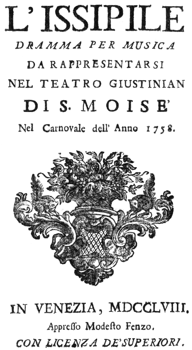 Florian Leopold Gassmann - Issipile - titlepage of the libretto - Venice 1758